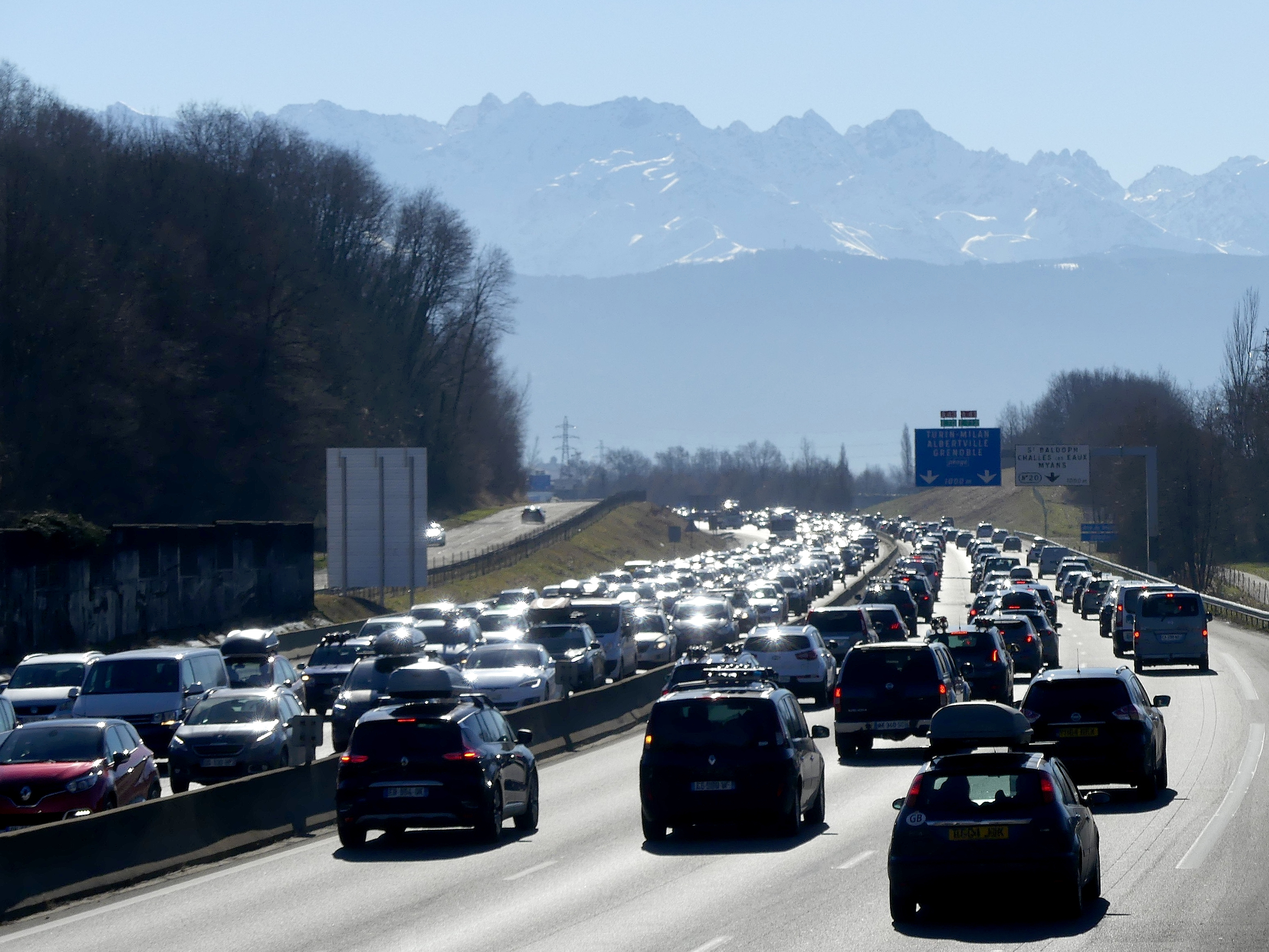 Sight, in the direction of the ski resorts, of a Saturday winter holiday traffic, in the South of Chambéry in Savoie, France.